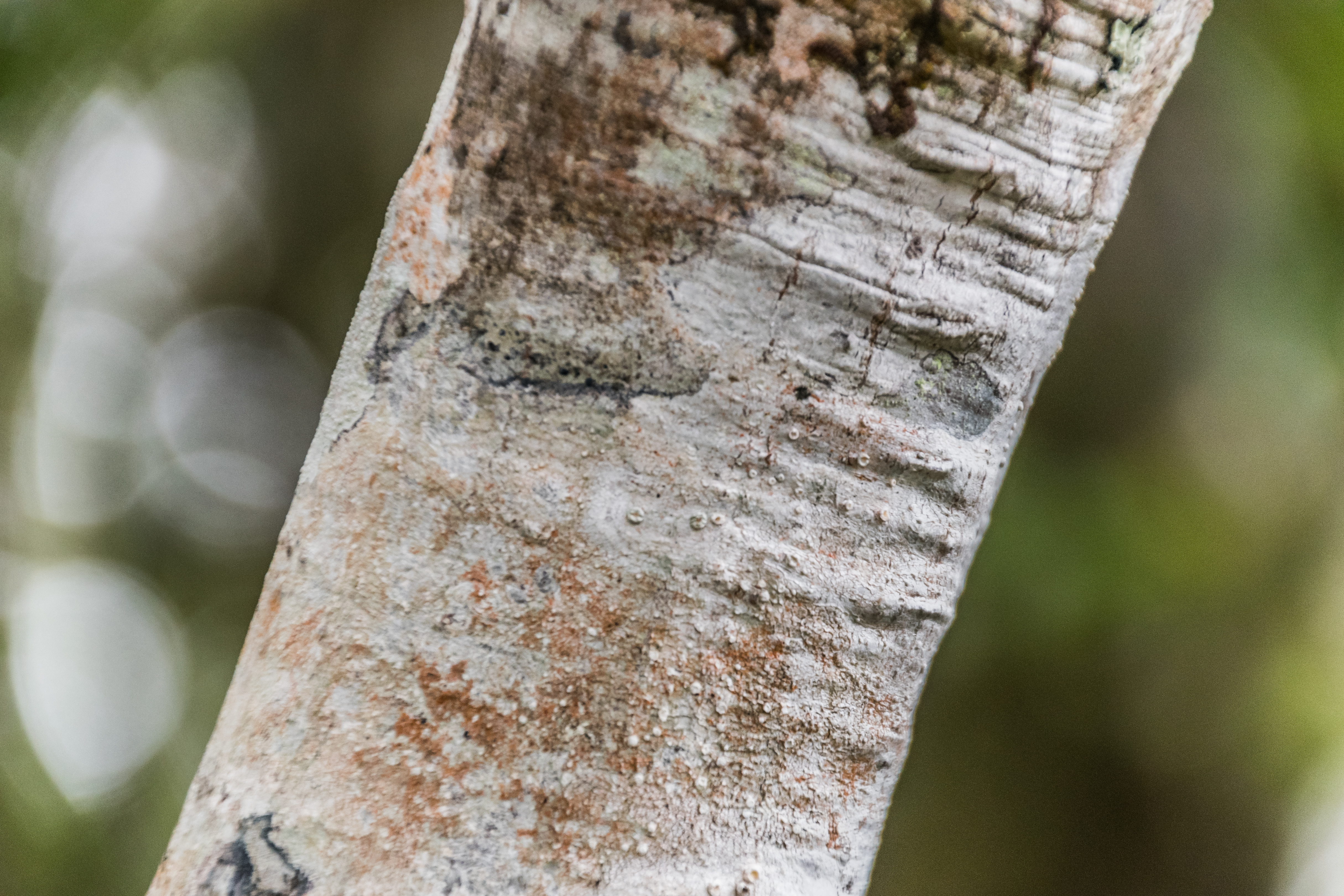 Phyllocladus alpinus in Whakapapa Village in Tongariro National Park, Waikato Region, North Island of New Zealand